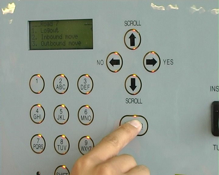 DPPS panel operations